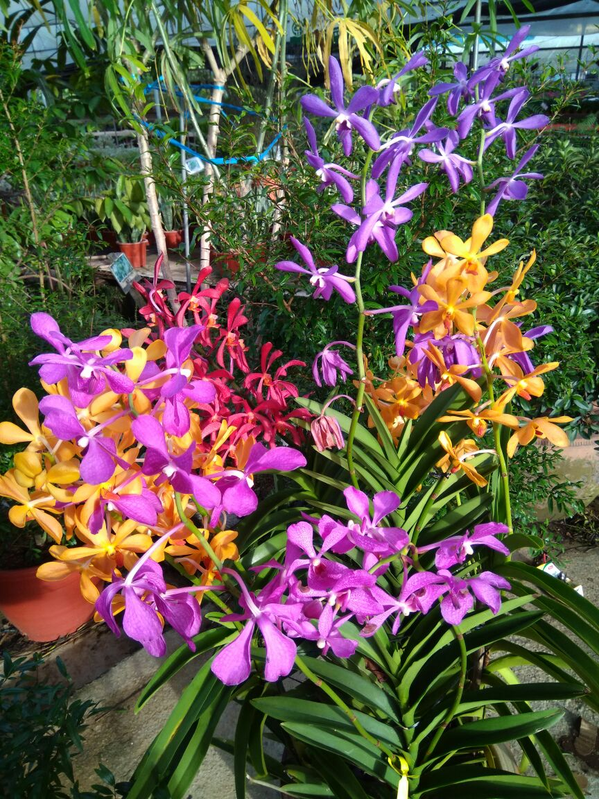 Epidendroideae Orchids in Singapore